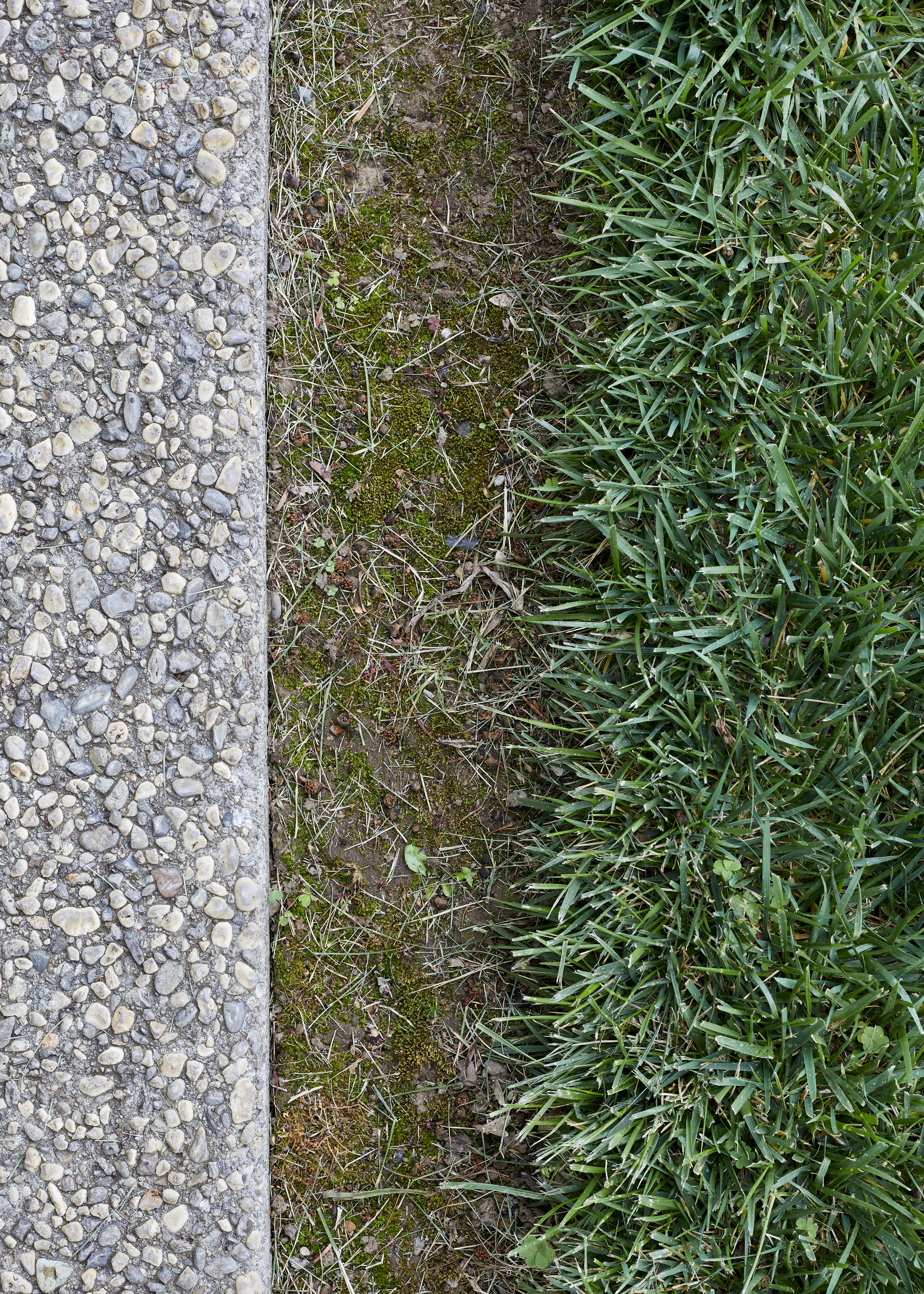 Vorgartenrasenkante, shortly before the rain set in, Chico 2020